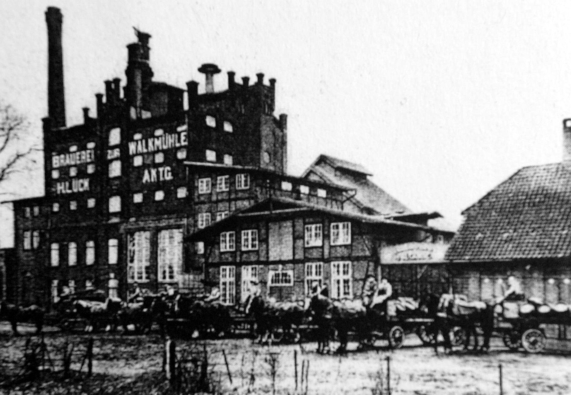 Front of the Lück Brewery